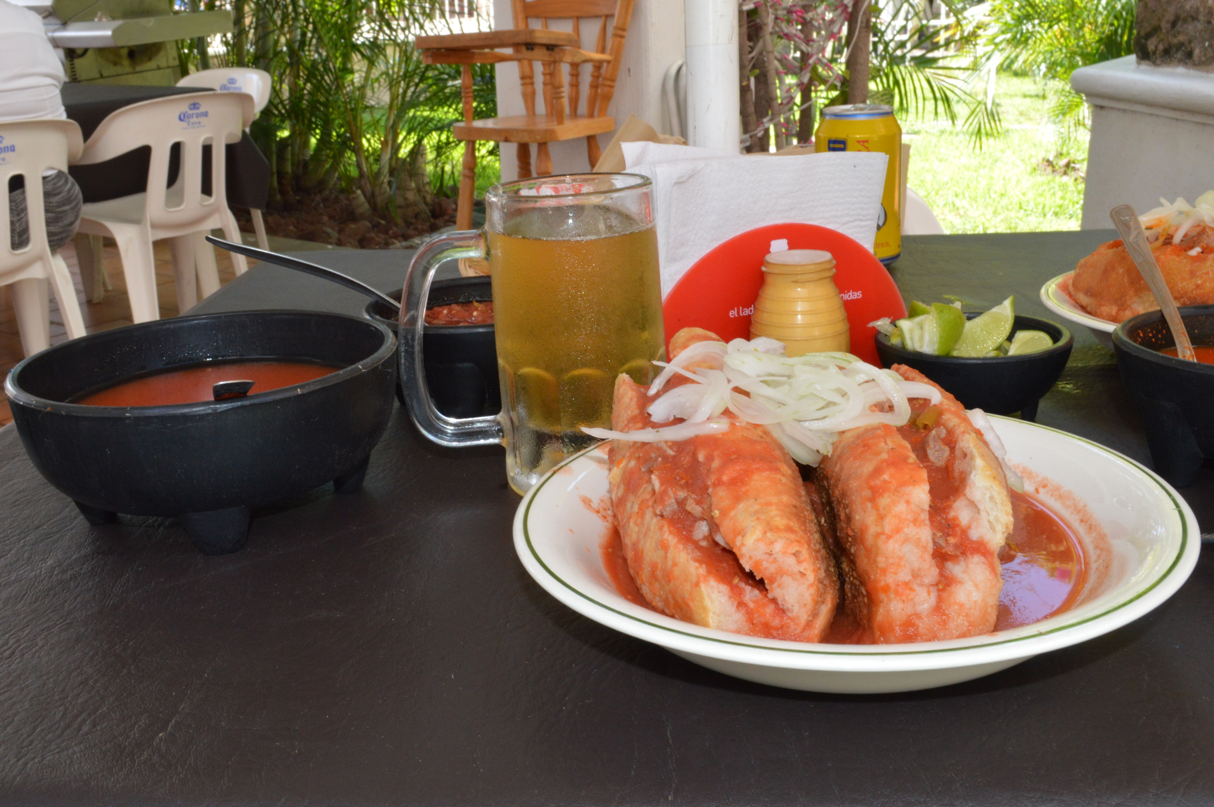 Torta ahogada served in Chapala, Jalisco